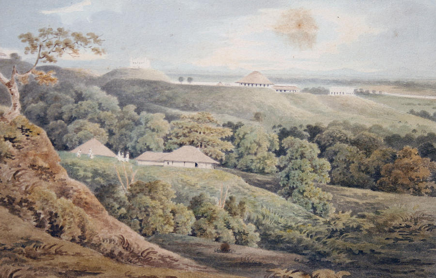 Chittagong signed and dated 'J George Oct 1822' (lower right below framing line), watercolour, unframed